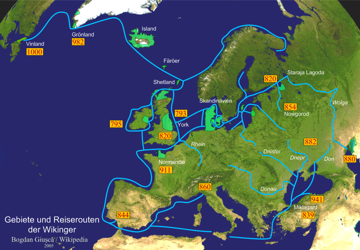 Map of territories and voyages of the Vikings.